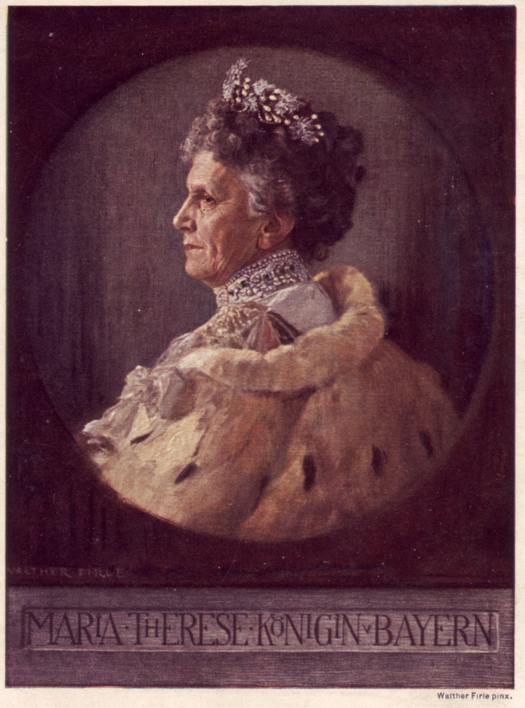 Queen Maria Theresia of Bavaria